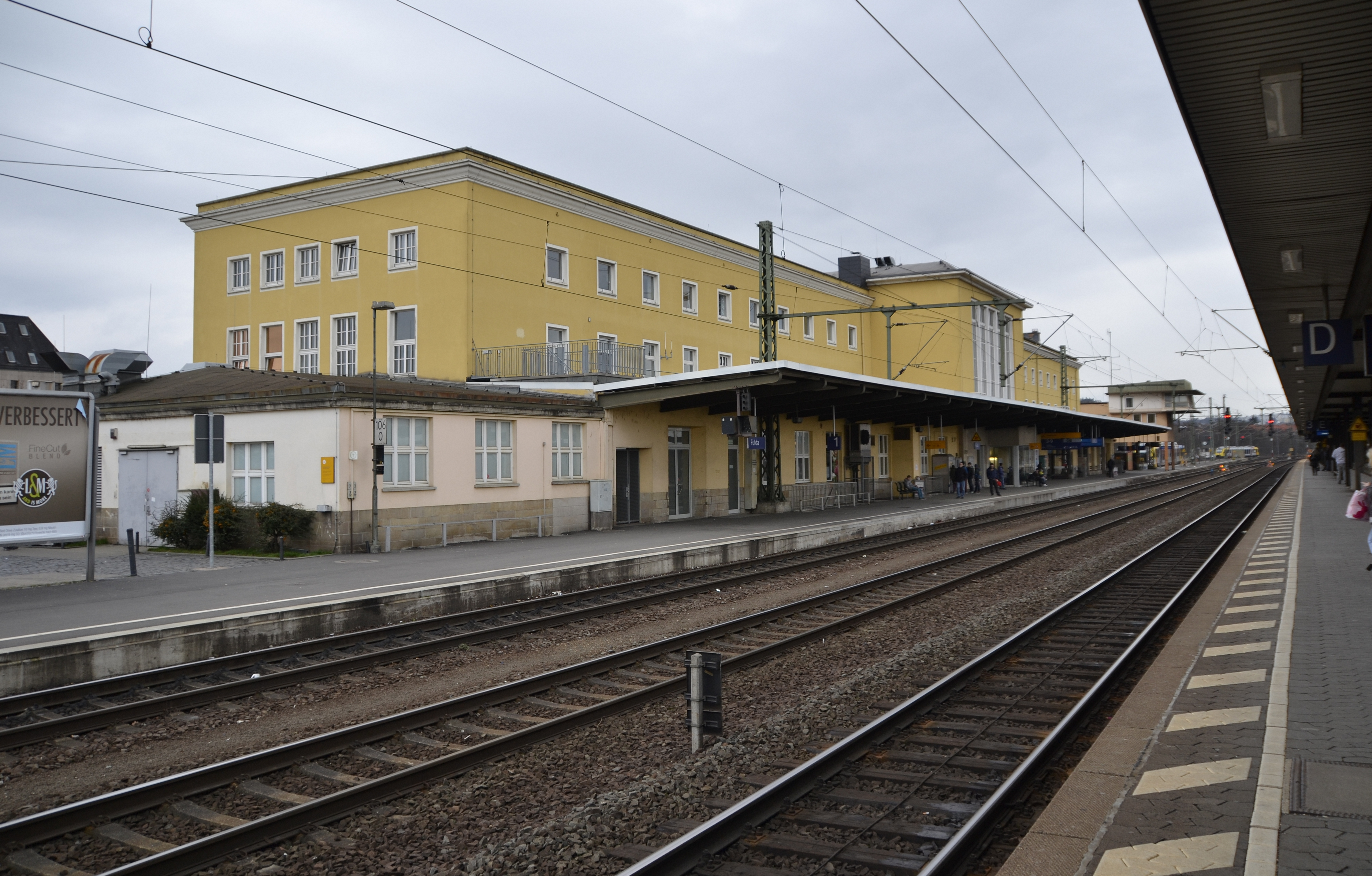 The main train station of Fulda, Germany.